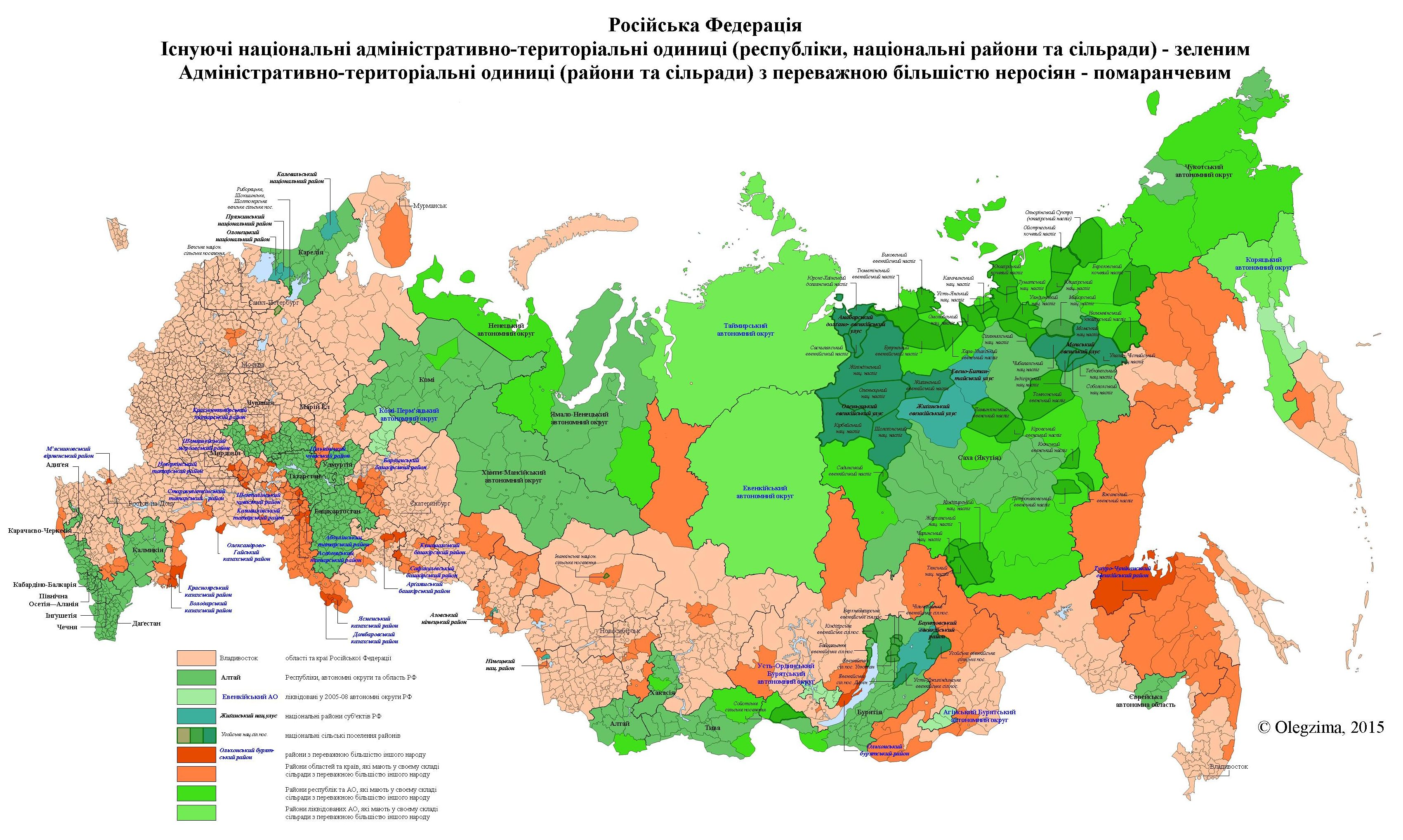 The Russian Federation The existing national administrative units (republics, national areas and village councils) - green Administrative-territorial units (districts and village councils) the vast majority of non-Russians - Orange